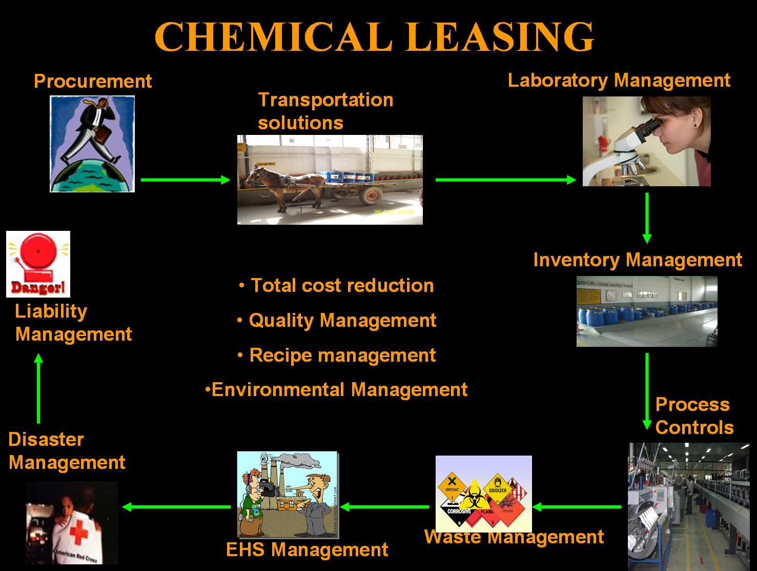 Chemical Leasing scope includes the entire life cycle of chemicals used in a factory